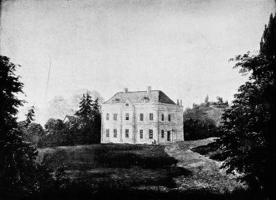 Photograph of painting of Combsatchfield House,Silverton, Devon, home of Henry Langford-Brown (1721-1800), demolished/rebuilt in 1839 as Silverton Park